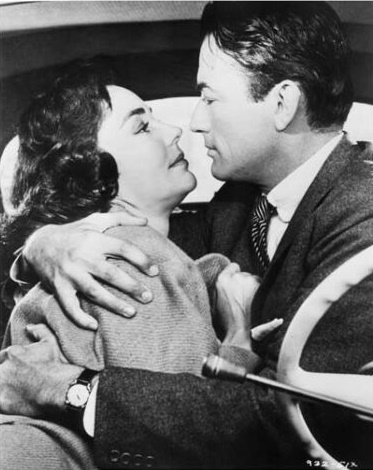 Jennifer Jones & Gregory Peck in American drama film The Man in the Gray Flannel Suit (1956). See also film still. No copyright notice.